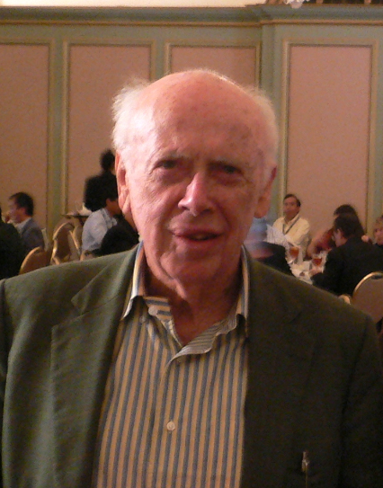 James Watson, c. 2007)